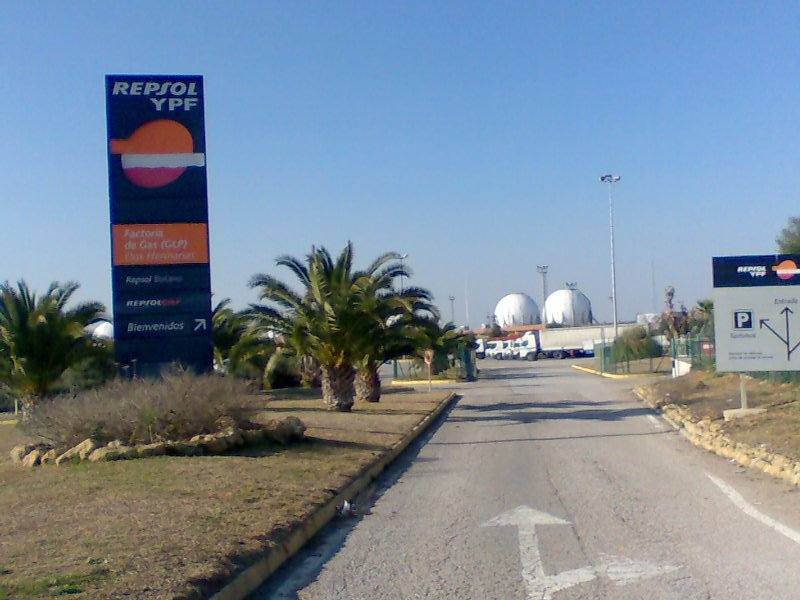 Fábrica de Gas de Repsol-Butano ubicada en Dos Hermanas (Sevilla)